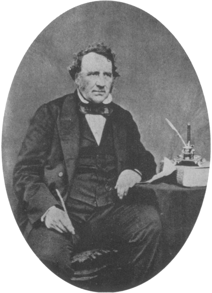 Charles Pearson (4 October 1793-14 September 1862). City Solicitor (1839-1862), MP for Lambeth (1847-1850) and campaigner for London's first underground railway.